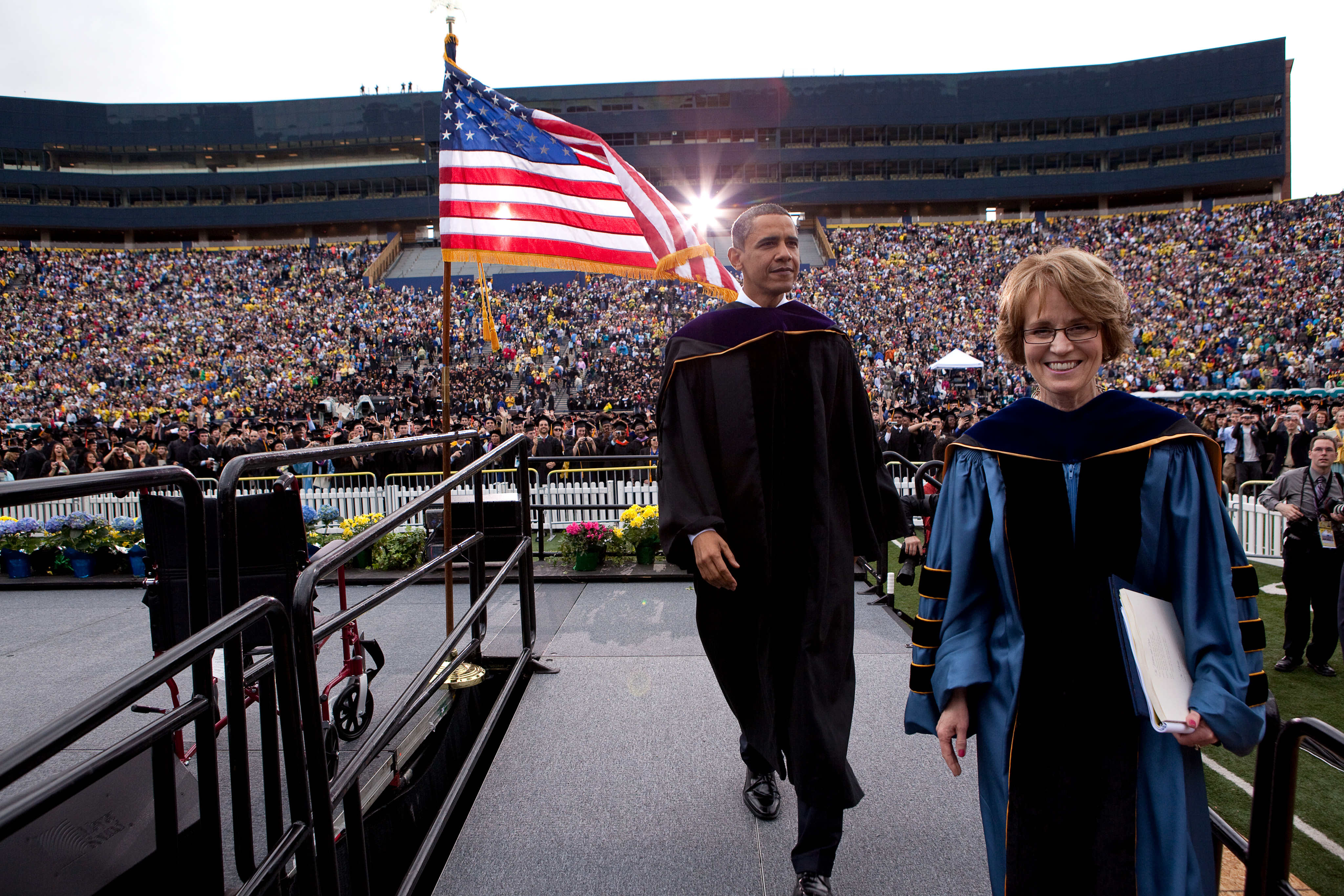 President Barack Obama exits the stage with University of Michigan president Mary Sue Coleman after delivering the commencement address to University of Michigan graduates at Michigan Stadium, in Ann Arbor, Mich., Saturday, May 1, 2010